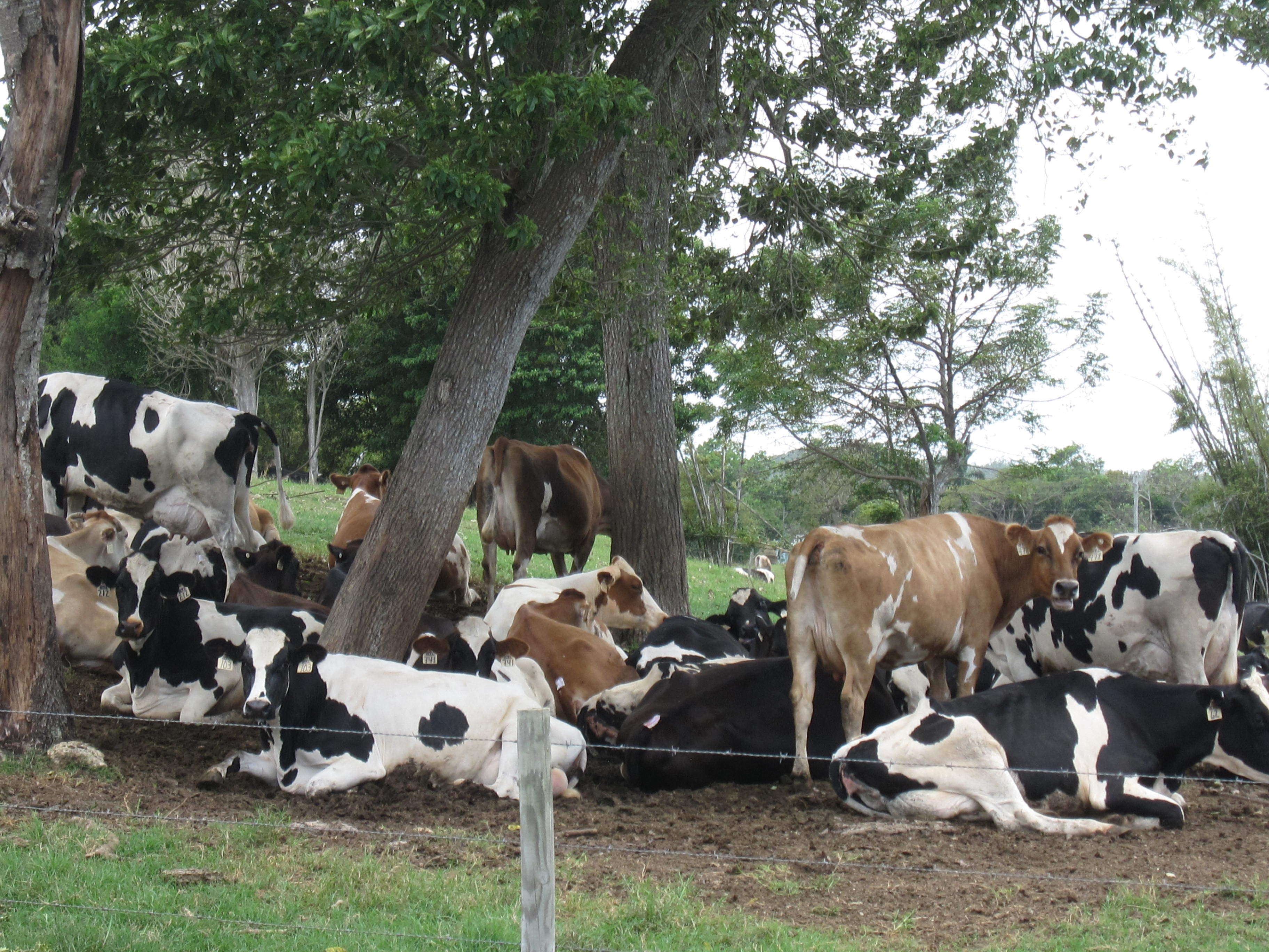 Cows in Garrochales, Arecibo, Puerto Rico